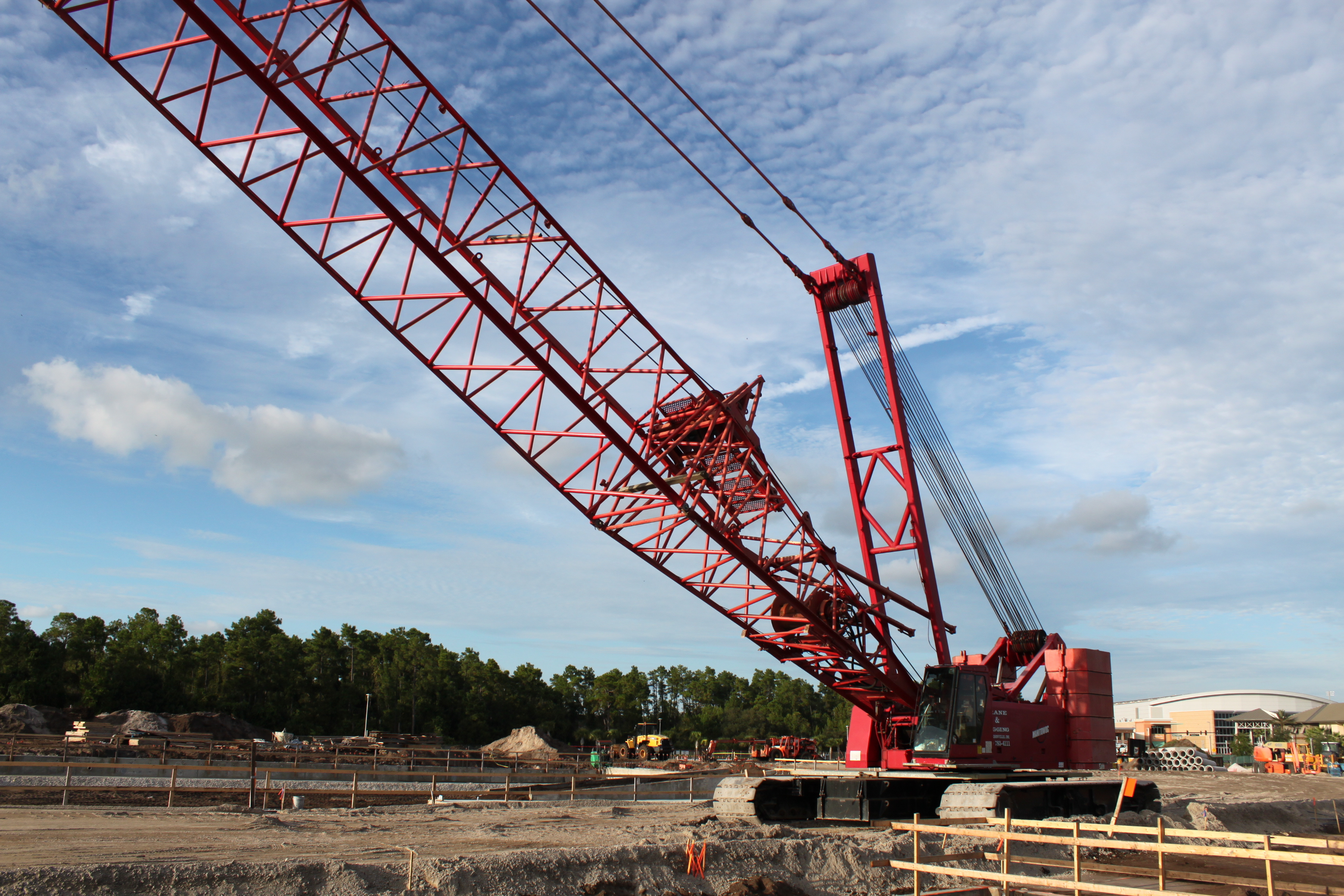 A Manitowoc Lattice Crawler, more specifically a Manitowoc Model 999, crane at a parking garage construction site at the University of Central Florida.